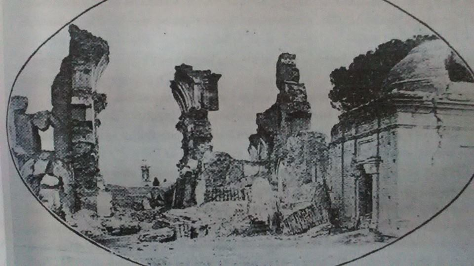 Ruins of the San Francisco temple of Mendoza, Argentina. It was destroyed by an earthquake in 1861.